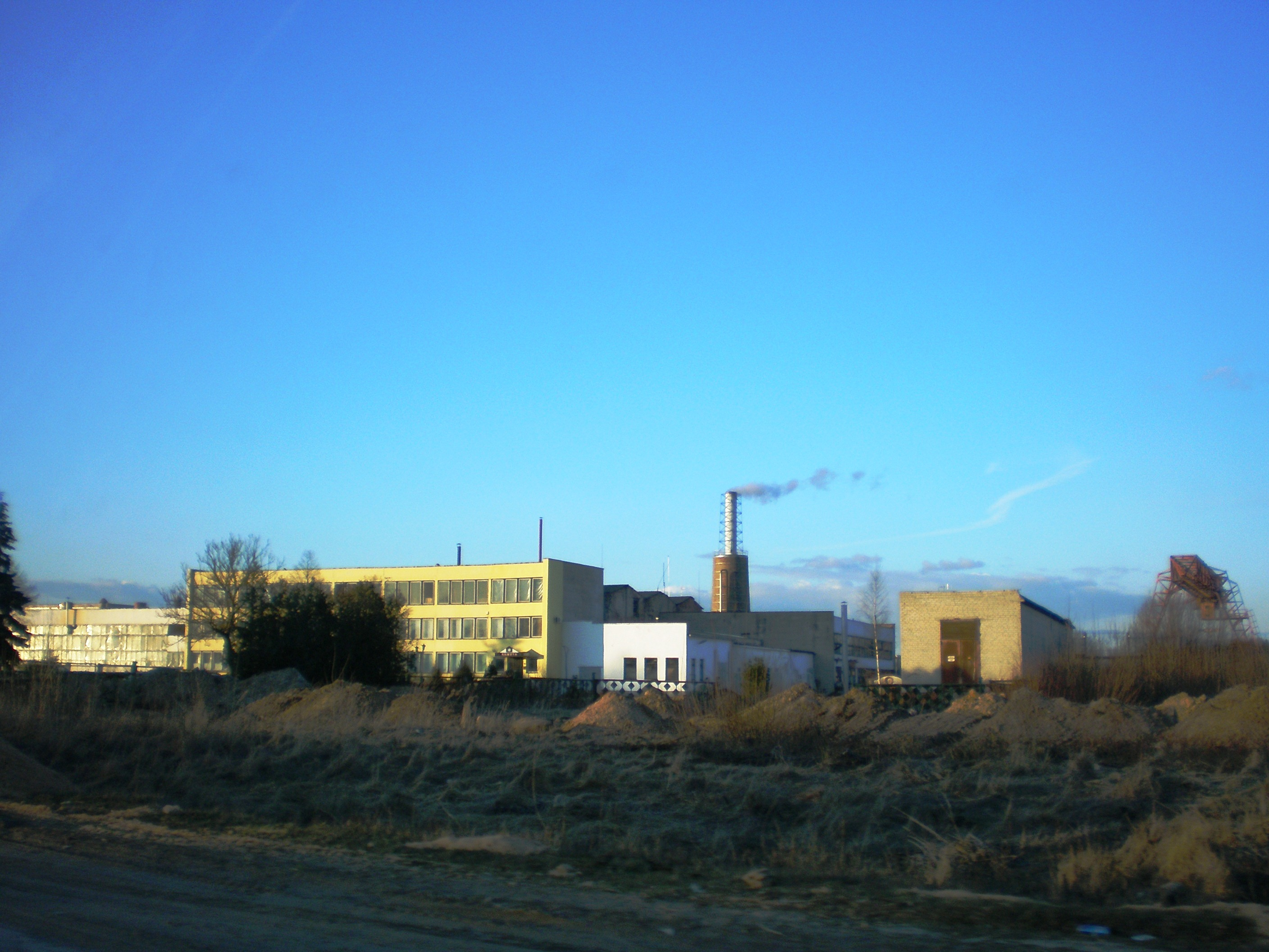 Factory in Radviliškis